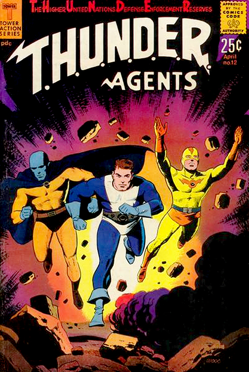 Noman, Dynamo and Lightning storm into battle on the cover of T.H.U.N.D.E.R. Agents number 12 (Tower Comics, April 1967). Artwork by Wally Wood, image has fallen into the public domain as no copyright notice was attached at the time of publication.